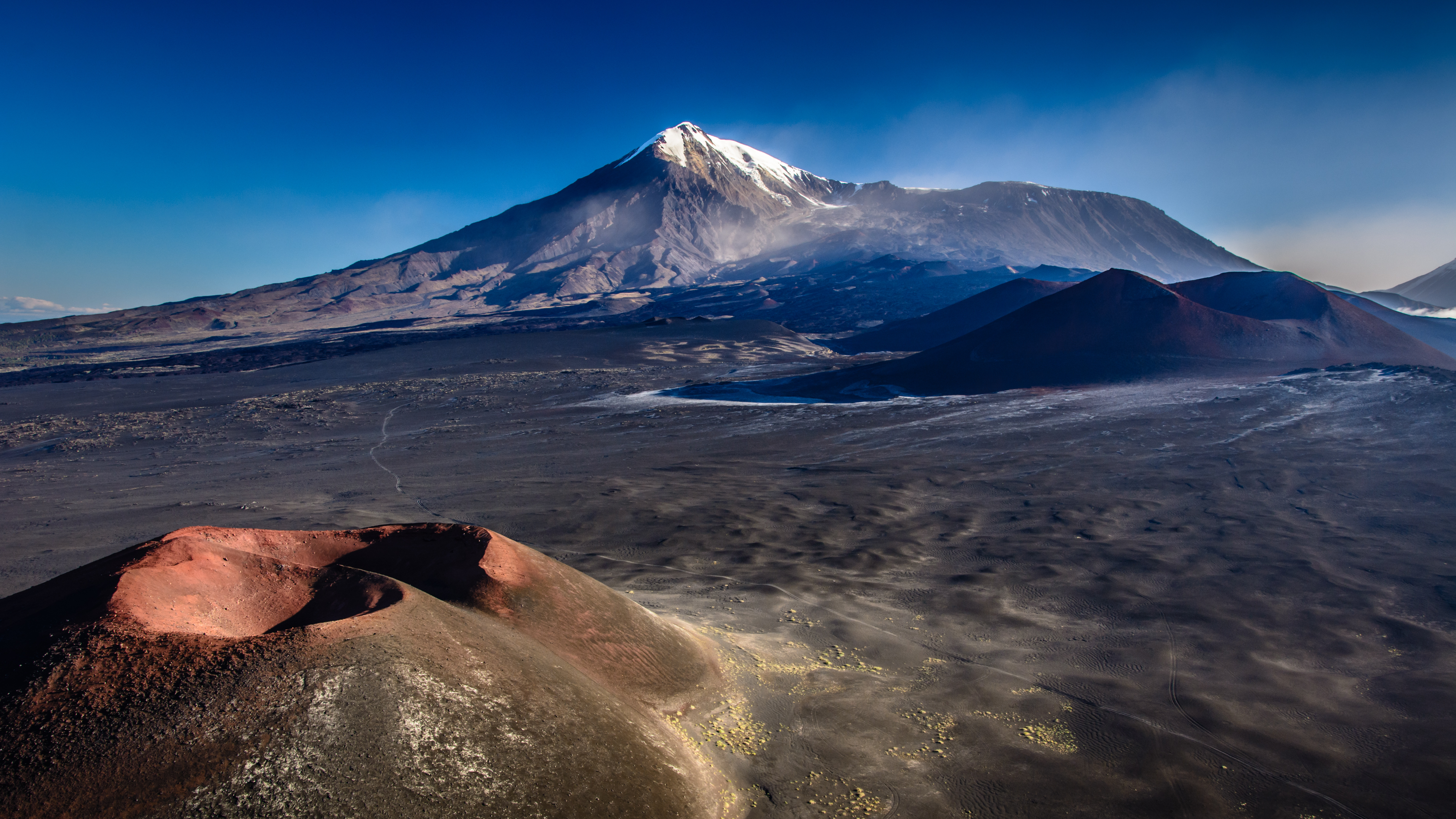 South side of Tolbachik volcano in Kamchatka, Russia.